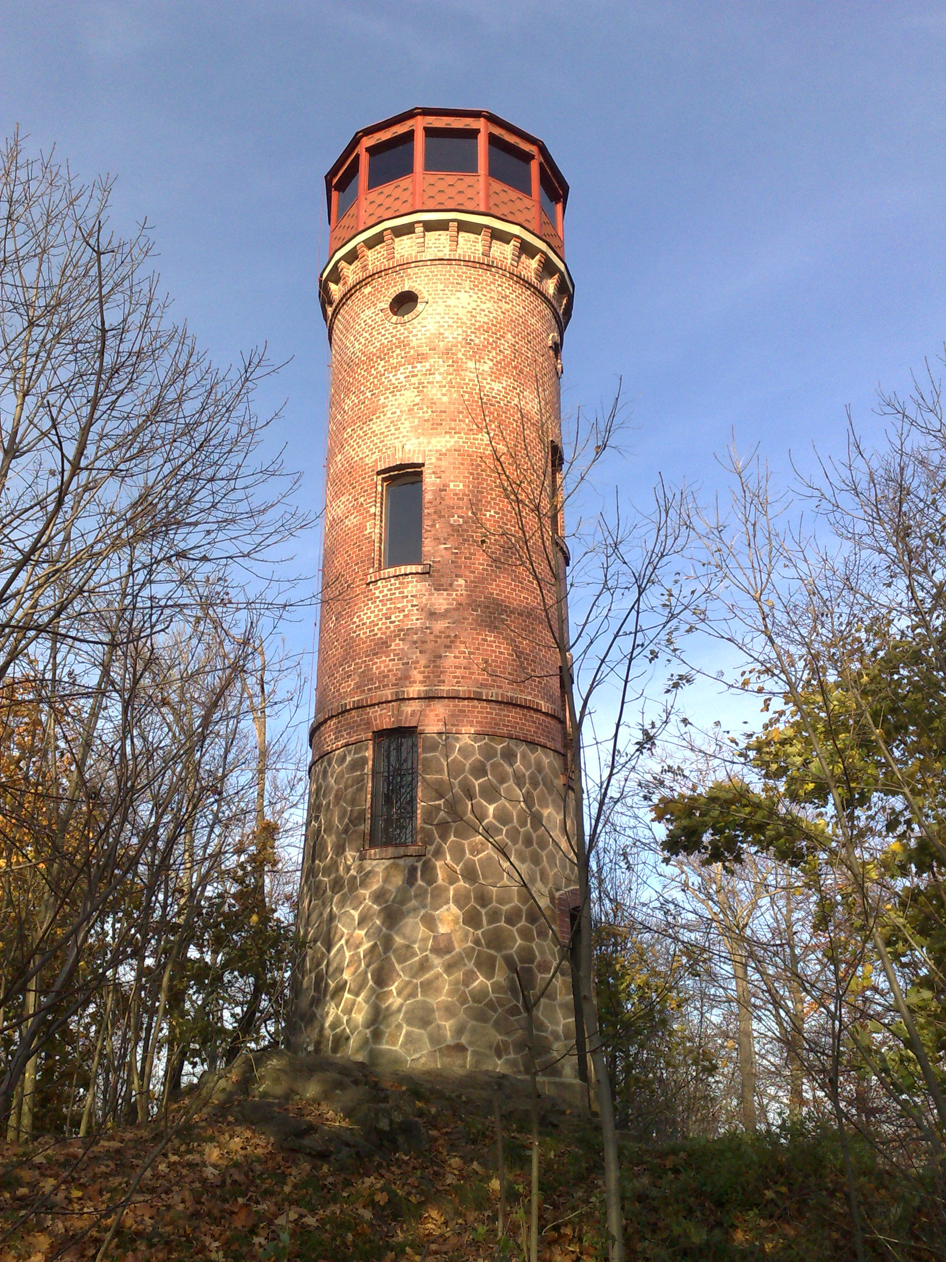 Observation tower Dymník in Czech Republic